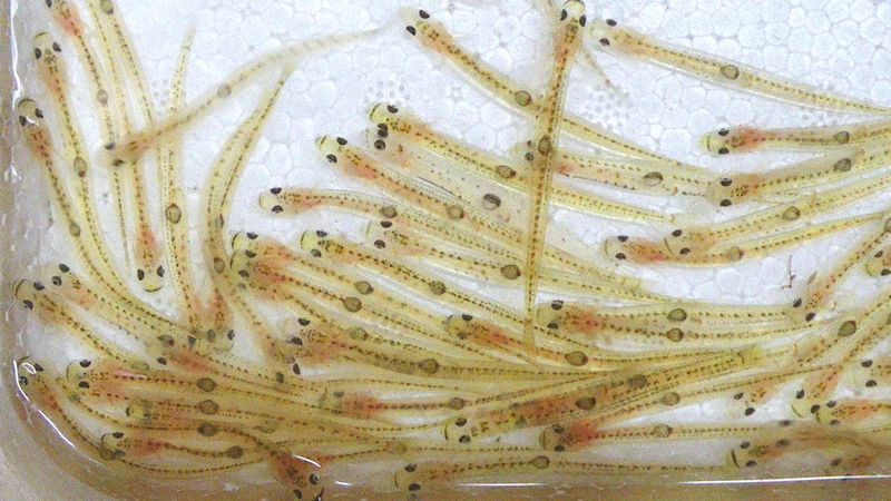 Ice goby (Leucopsarion petersii Hilgendorf,1880), Nagasaki, Japan